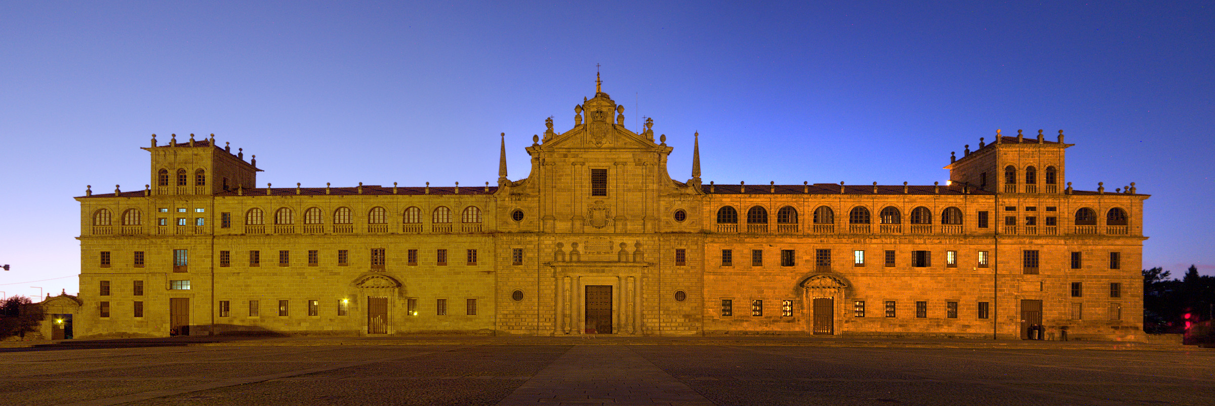 The facade of the College of Our Lady of Antigua at dusk. Stitch of 3 horizontal images.